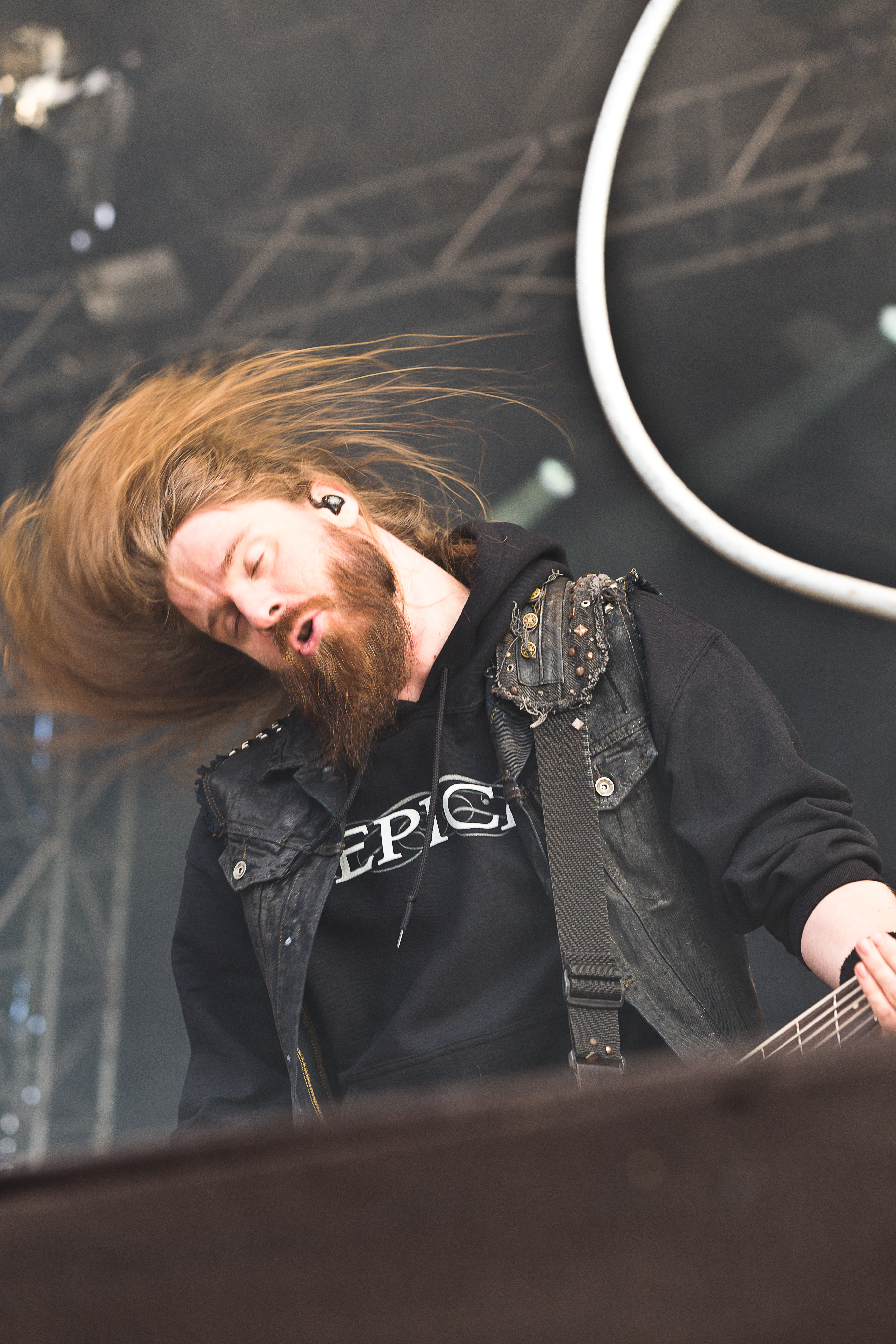 The Dutch symphonic metal band Epica at the Rockharz Open Air 2015 in Ballenstedt/Germany.